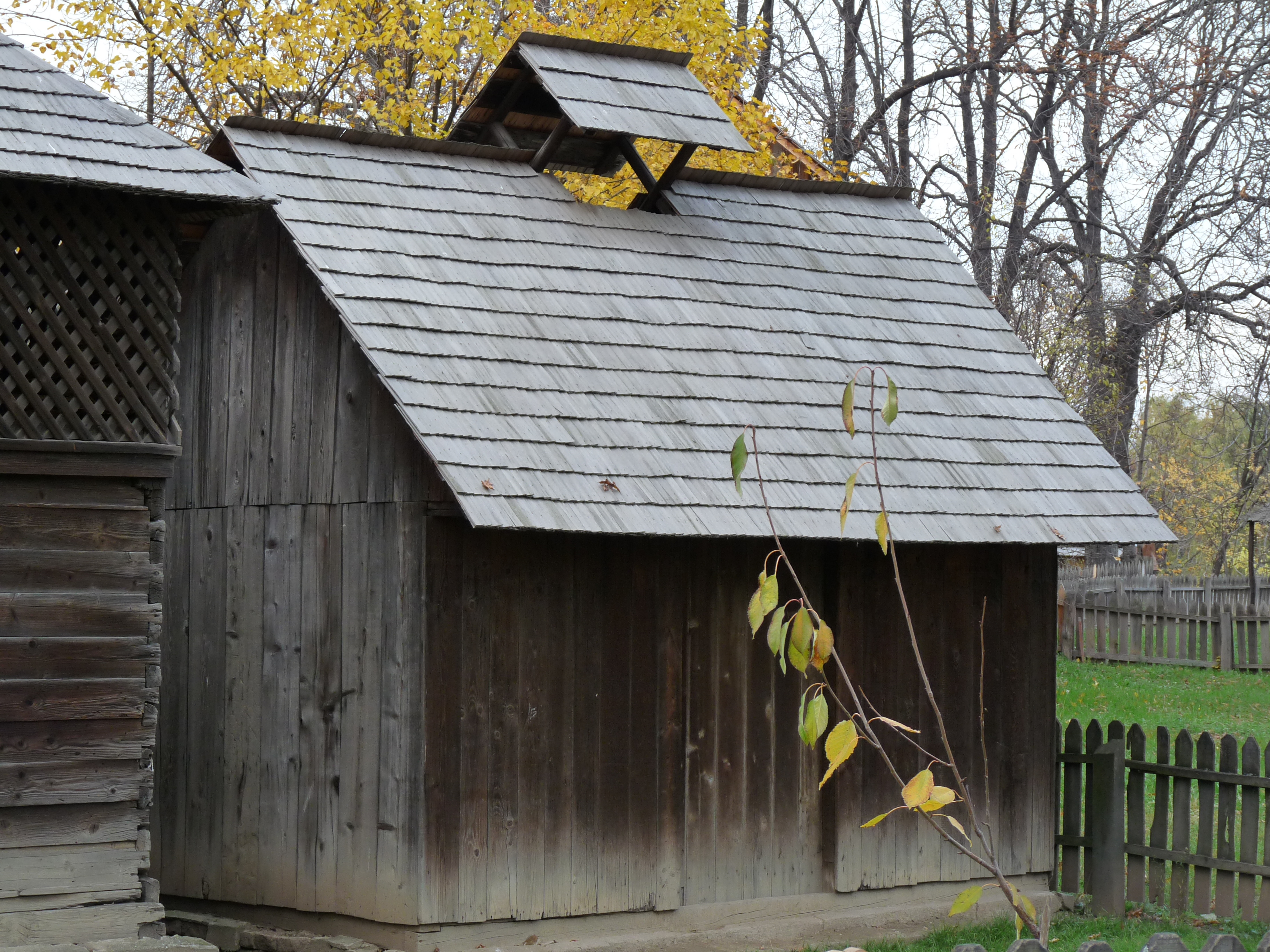 19th century household from Stăneşti, Argeş County, Romania, exhibited in the Village Museum in Bucharest. Small plum brandy distillery.